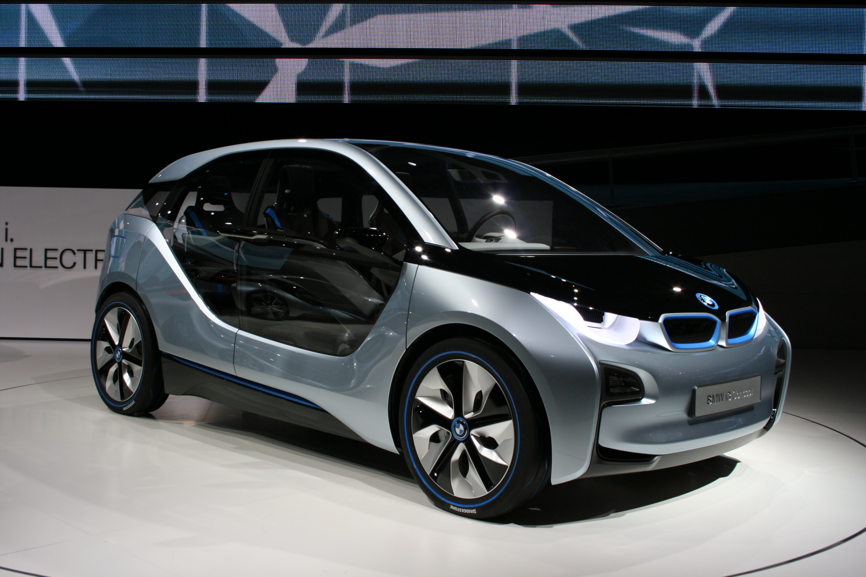 BMW i3 Concept at IAA 2011. View: front right.